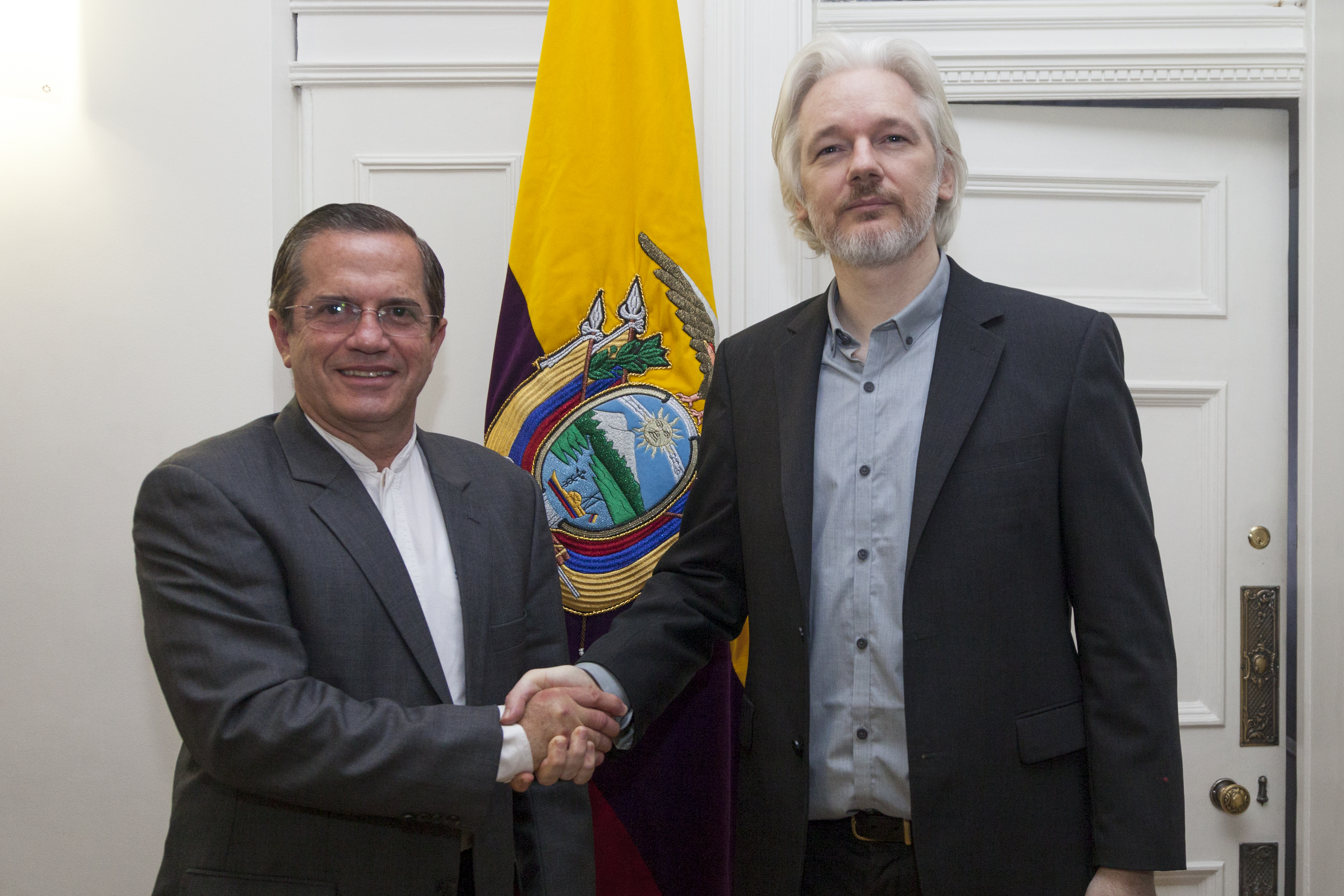 London (United Kingdom), August 18, 2014, Ricardo Patiño and Julian Assange at a press conference before international media.